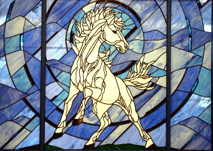 This is the stained glass found in the commons of Philip Barbour High School.